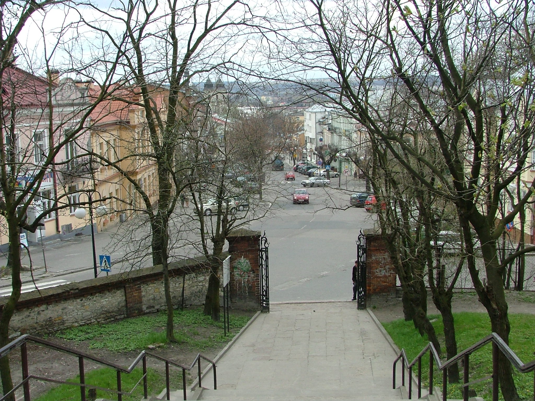 Poland, Lubelska Street in Chełm